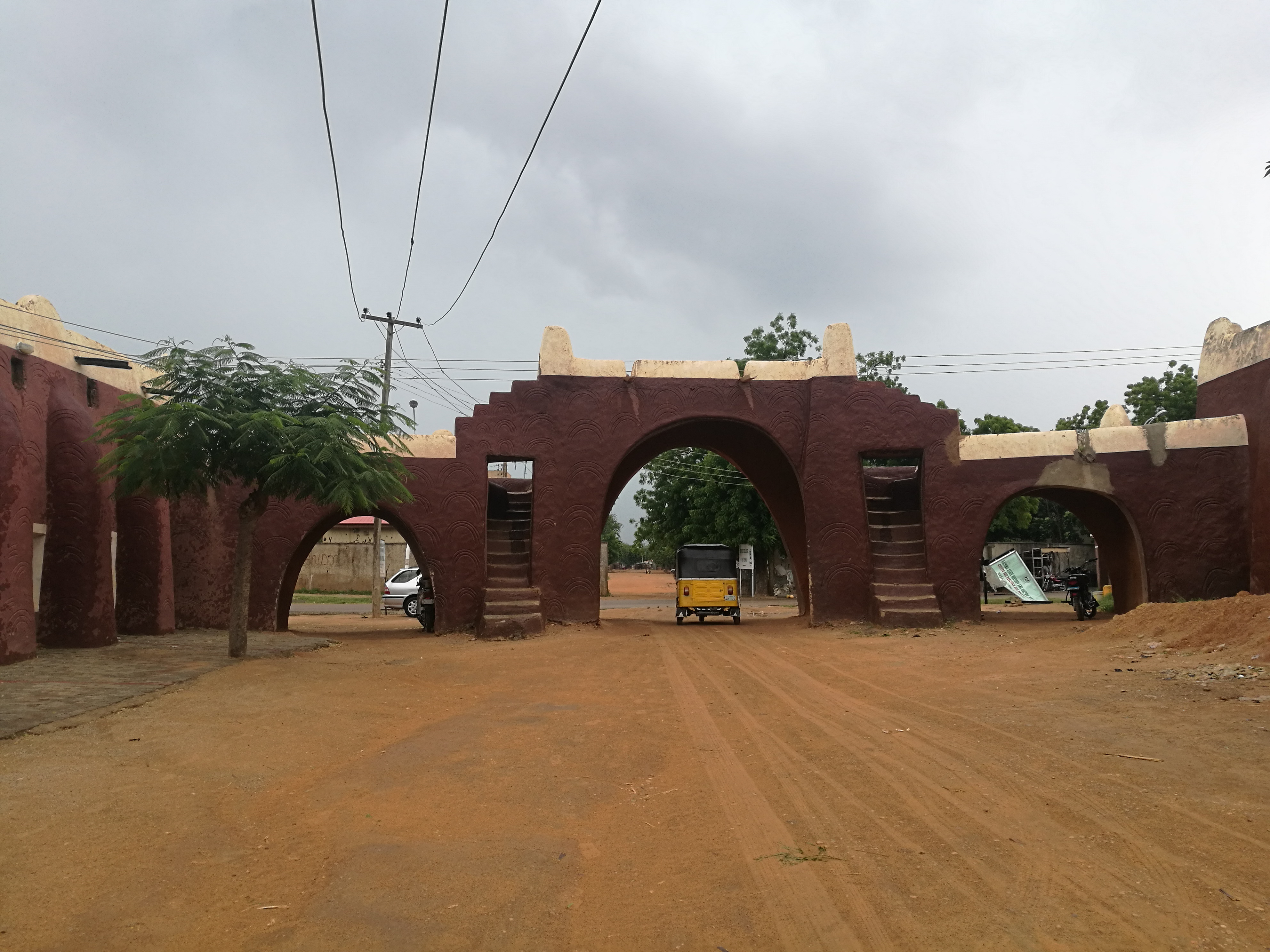 A rickshaw drives through the beautiful entrance of the National Museum, Katsina. Rickshaws, popularly called Kekes or Keke Maruwa in Nigeria, are a major means of transportation across Nigeria, seating 4 to 5 passengers at a time. This is an image with the theme "Africa on the Move or Transport" from: Nigeria